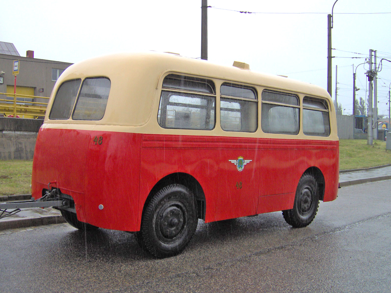 Historical Karosa B 40 trailer in Brno